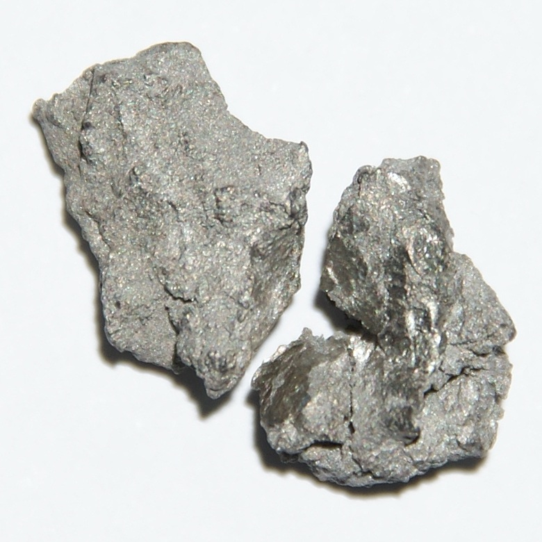 Zirconium is a hard, silvery grey metal. It is quite reactive, but forms a protective oxide layer in air, which makes it corrosion-resistant. Above all, it is used for special alloys. From cubic zirconia, ZrO2, artificial gemstones can be made, which look very similar to diamonds. After being exposed to air for more than a year, the surface is slightly oxidized and therefore darker and less glossy.